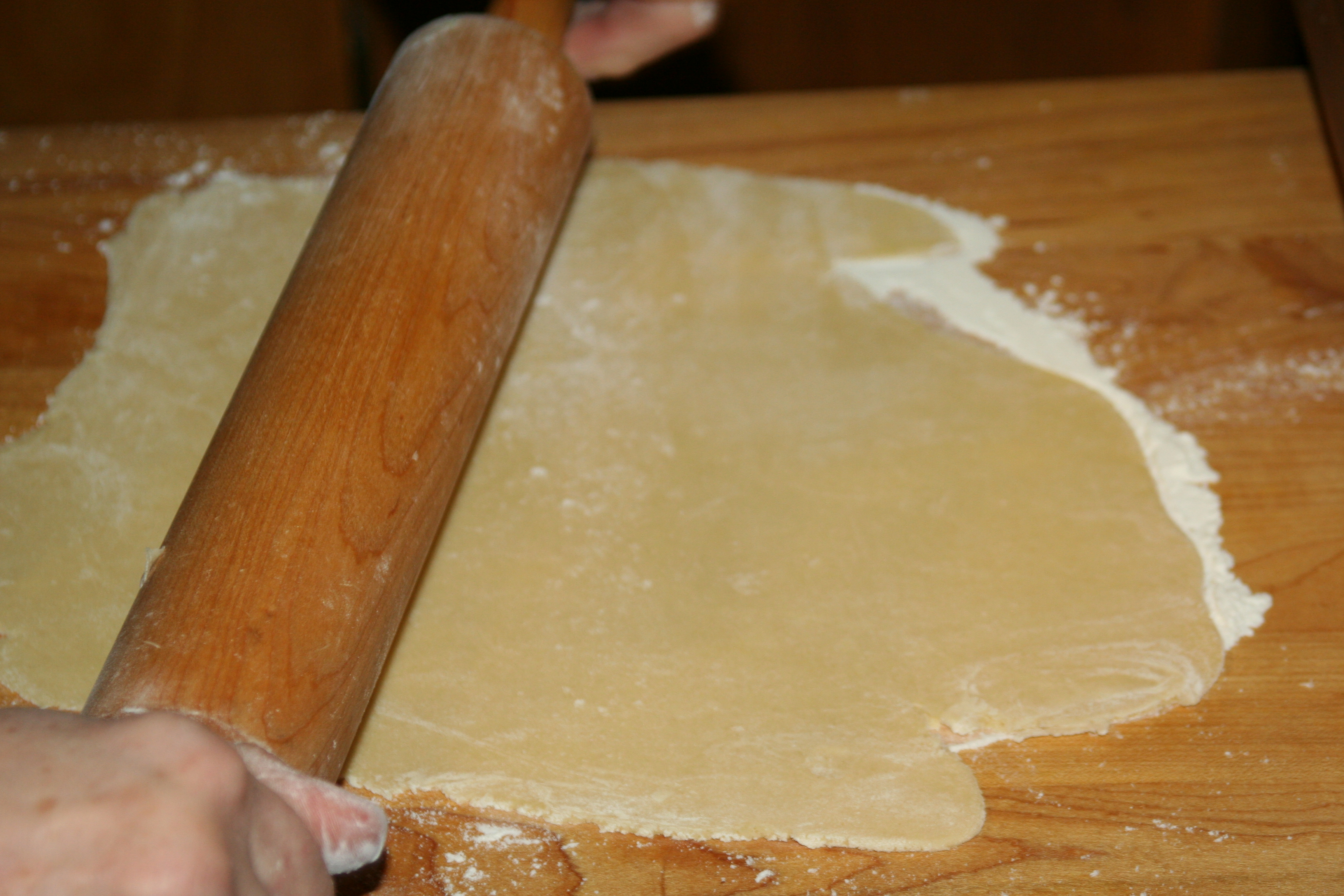 Rolling out krumkake dough